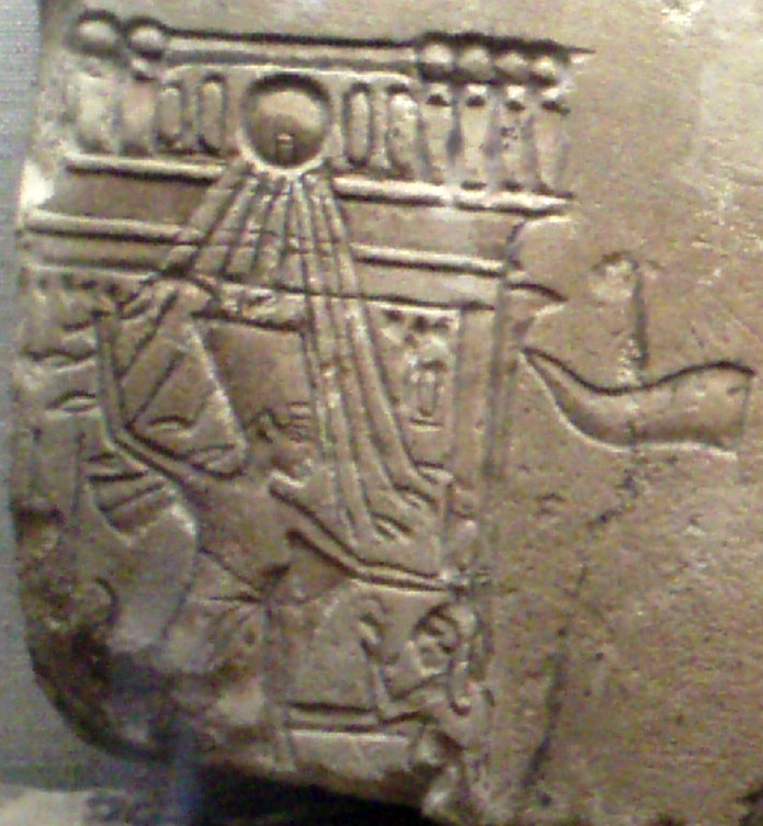 Detailed close-up of a limestone relief originally from Amarna depicting Nefertiti smiting a female captive on a royal barge. Found at Hermopolis, from the reign of Akhenaten, 1353-1336 B.C. On display at the Museum of Fine Arts. Boston. Cat #63.260. Contrast adjusted for clearer viewing.